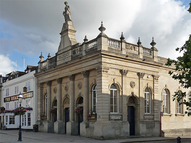 Corn Exchange, Devizes